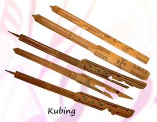 The National Heritage Month featuring Philippine Traditional Musical Instruments: Kubing